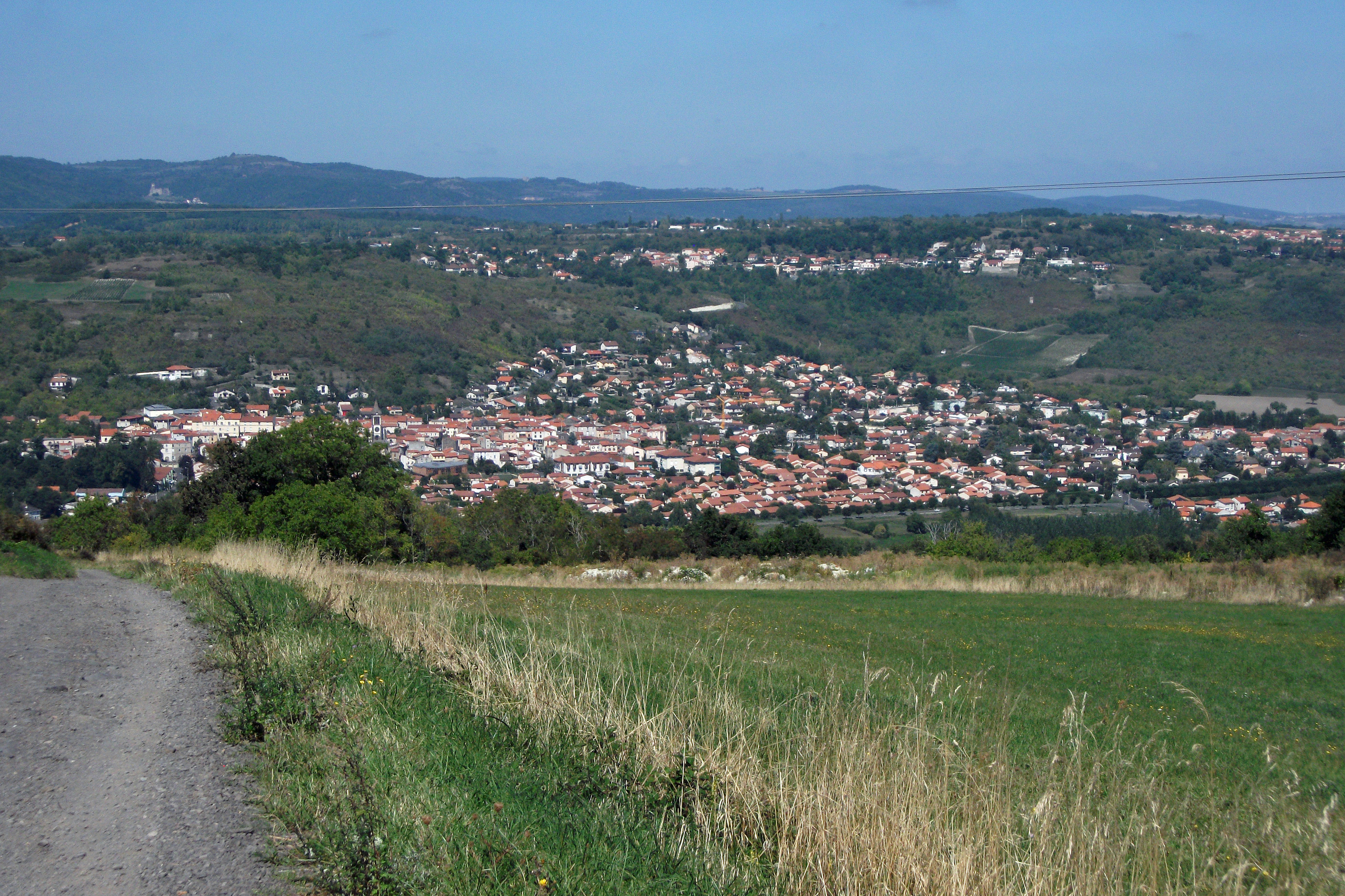 View of Blanzat from col de Bancillon (elevation: 549 m or 1,801 ft) [9065]